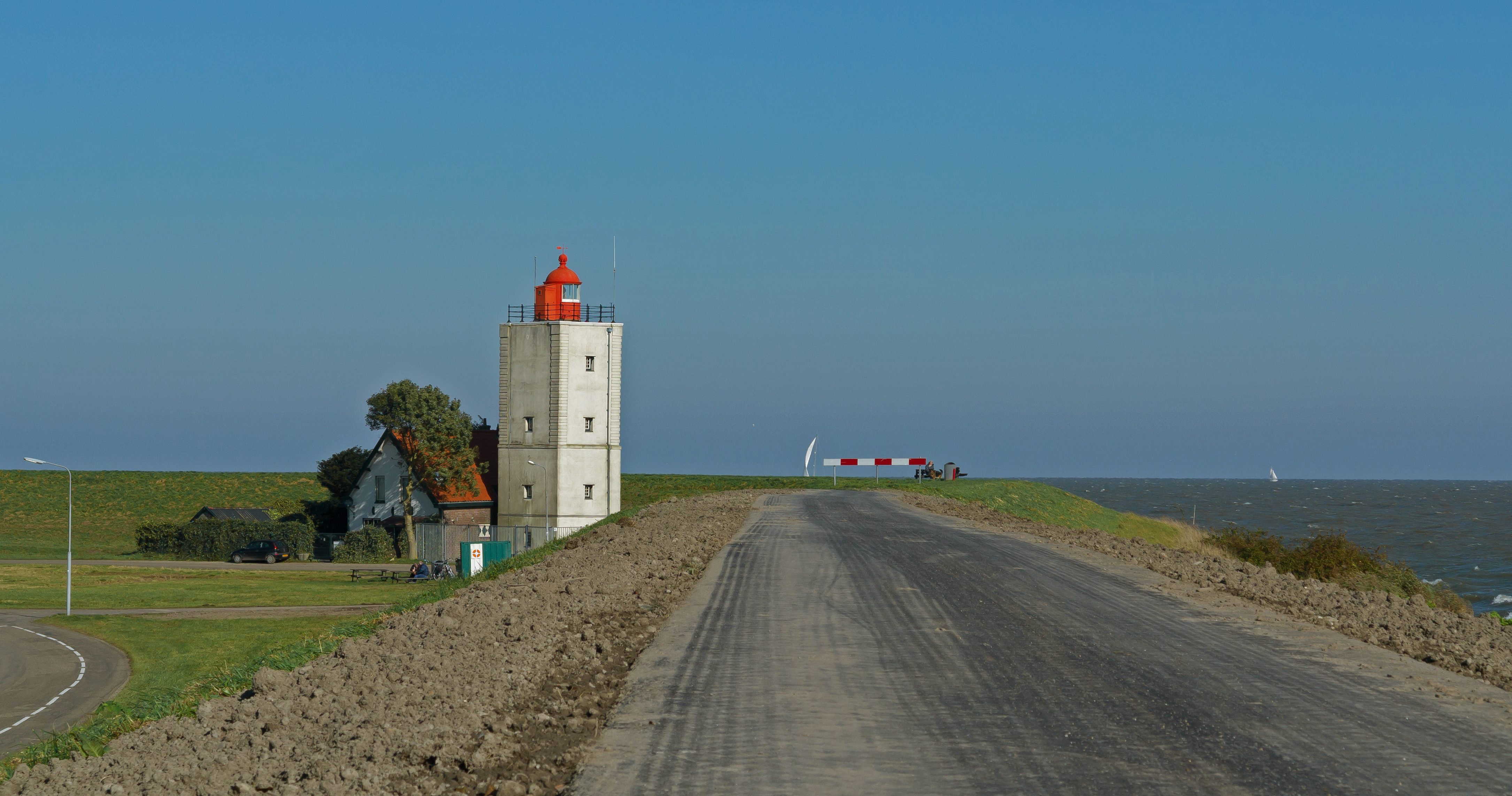 Oosterdijk, lighthouse: vuurtoren de Ven